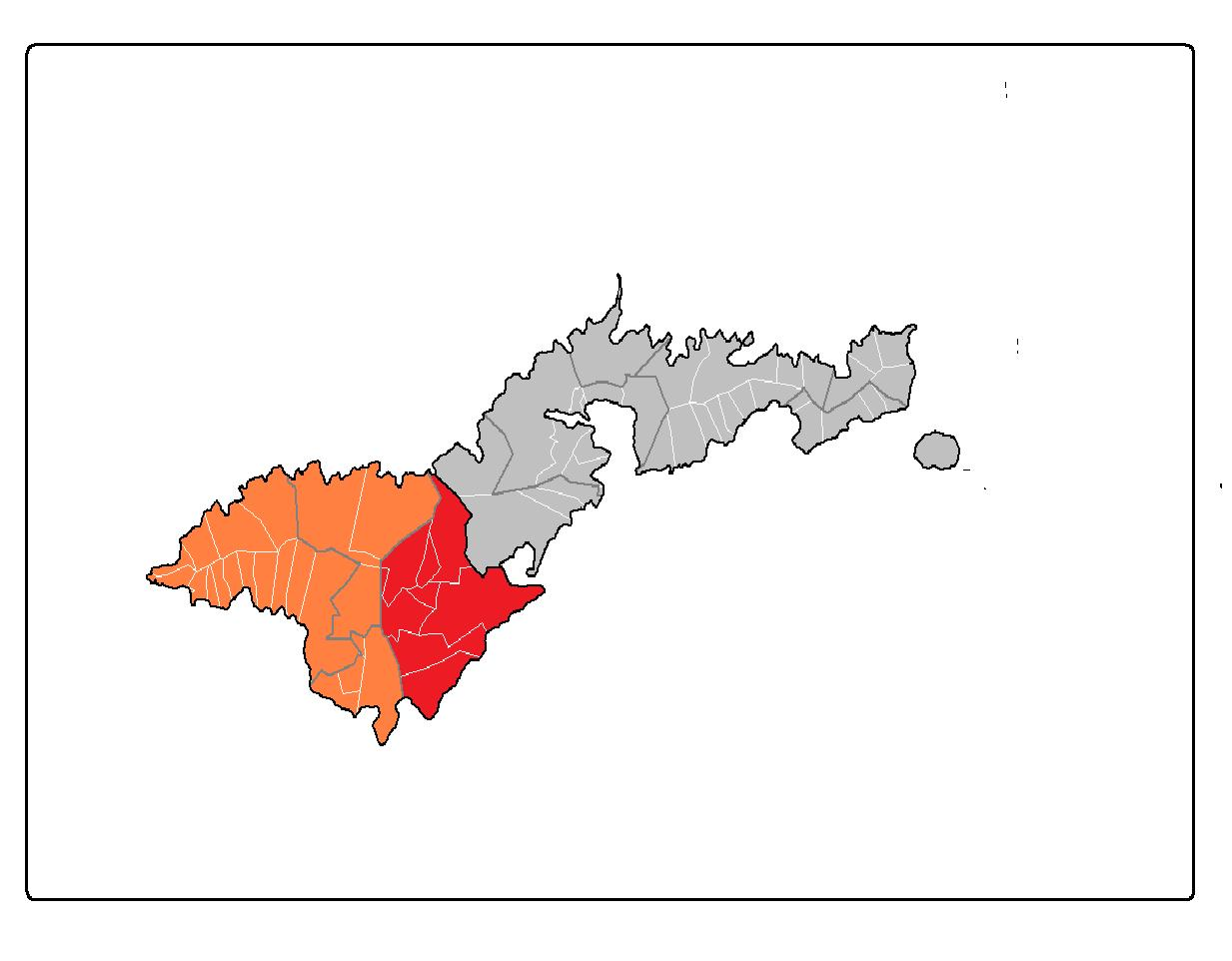 Locator map of American Samoa: Tualauta county